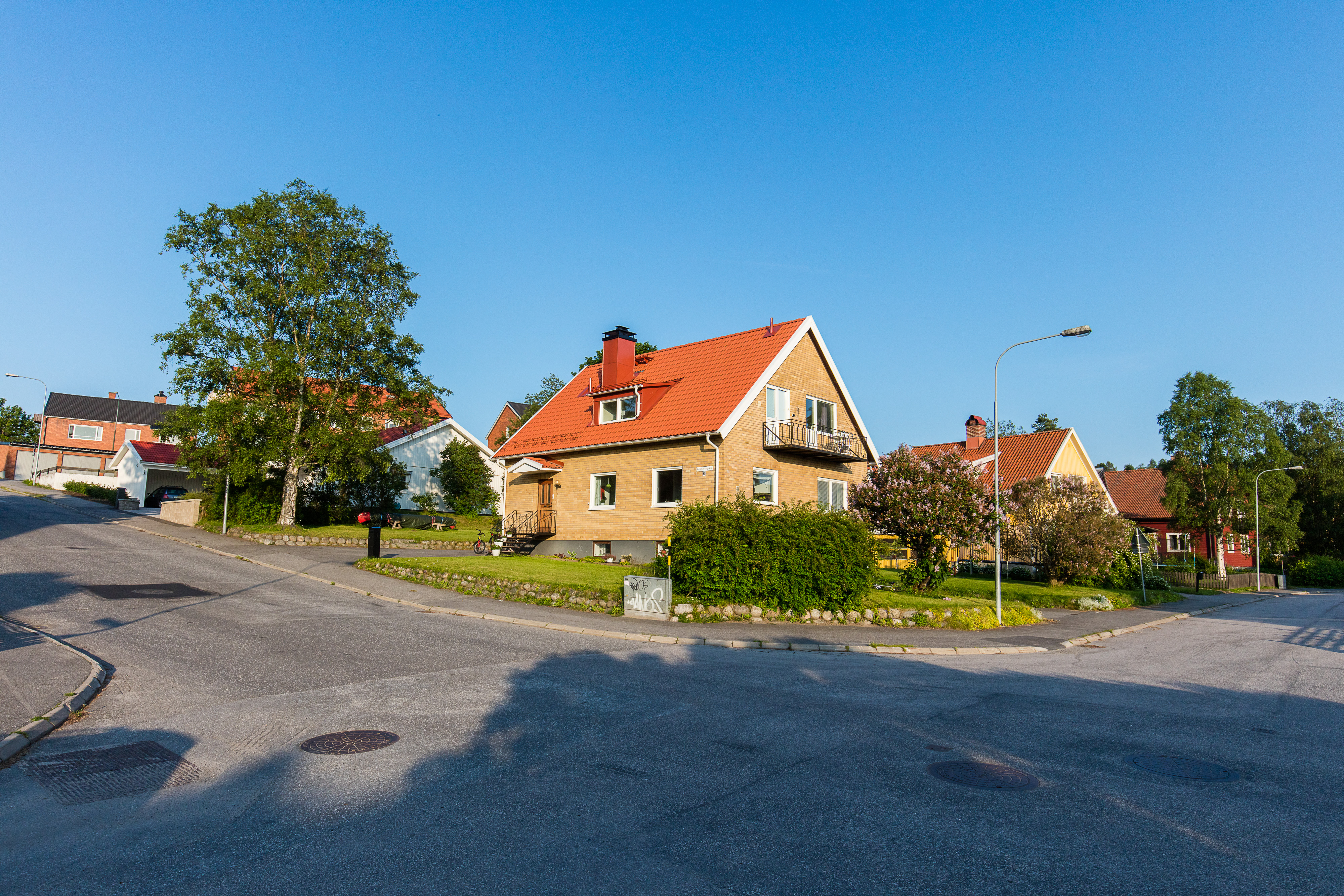 Sofiehem is a district of Umeå.